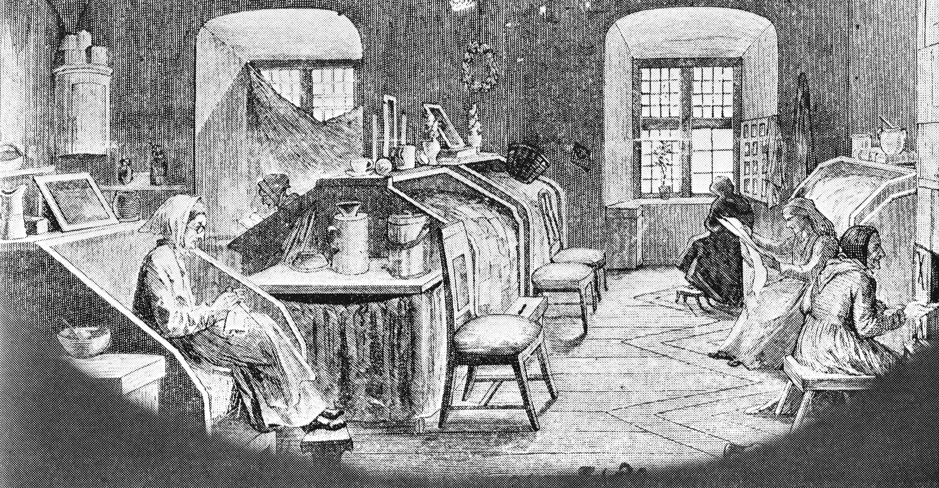 From Katarina workhus in Stockholm in 1881. The poorhouses in the cities were more orderly than those on the countryside, but on the other hand, the freedom of the inmates was severly restricted.